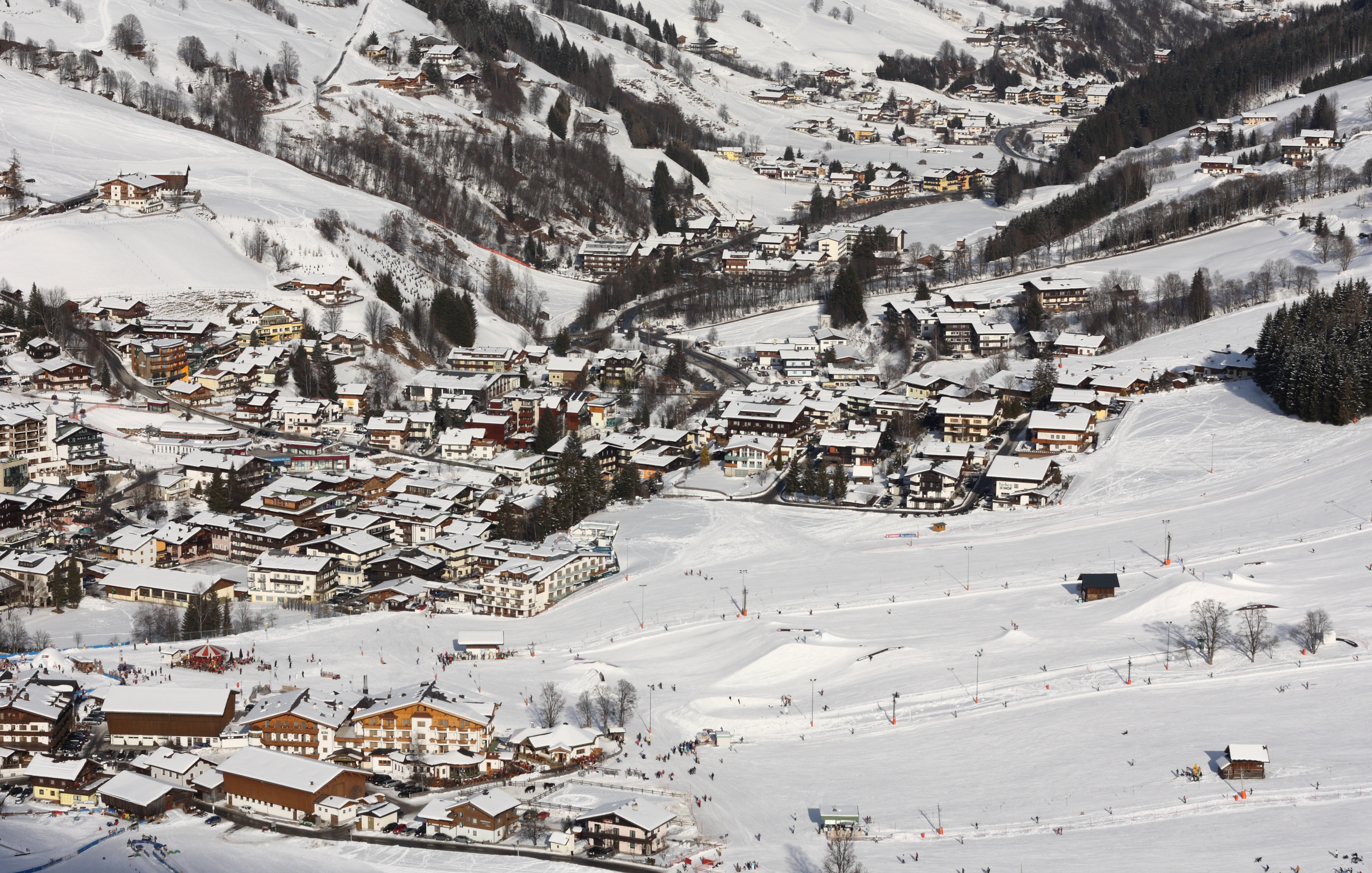 Hinterglemm village seen from Zwölferkogelbahn lift, Saalbach-Hinterglemm, Austria. Camera settings: 0 ISO: 100